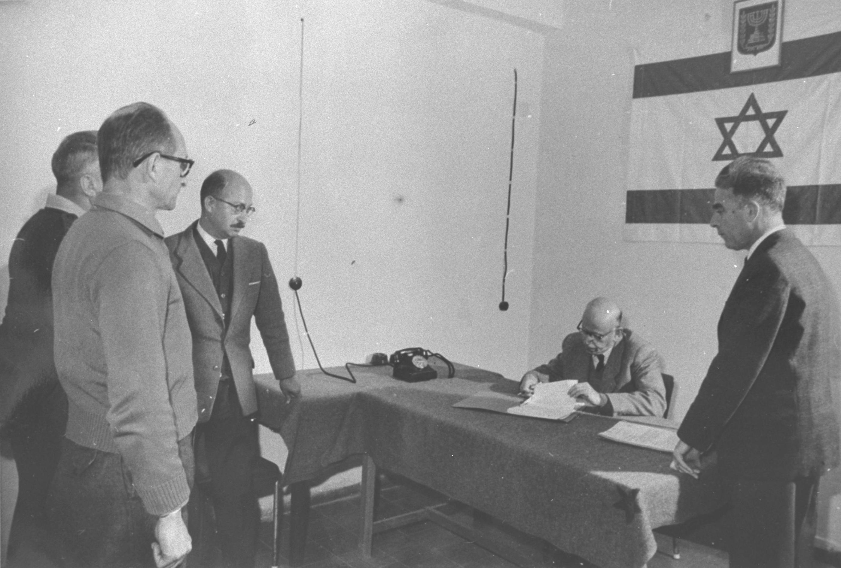 Adolf Eichmann's extension of arrest hearing